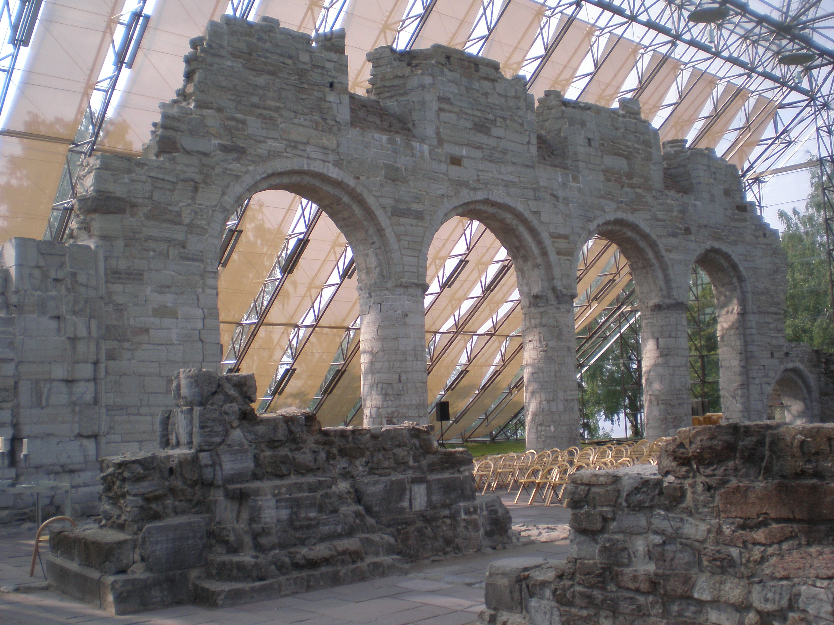 Arches in the Cathedral_Ruins_in_Hamar at the Hedmarksmuseet